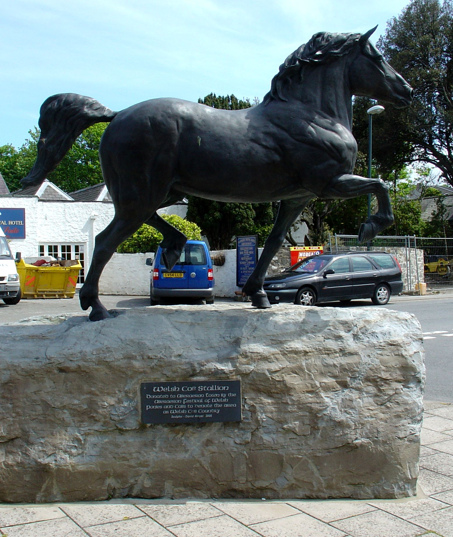 Statue of Welsh cob stallion (Sculptor David Mayer, 2005, Aberaeron)